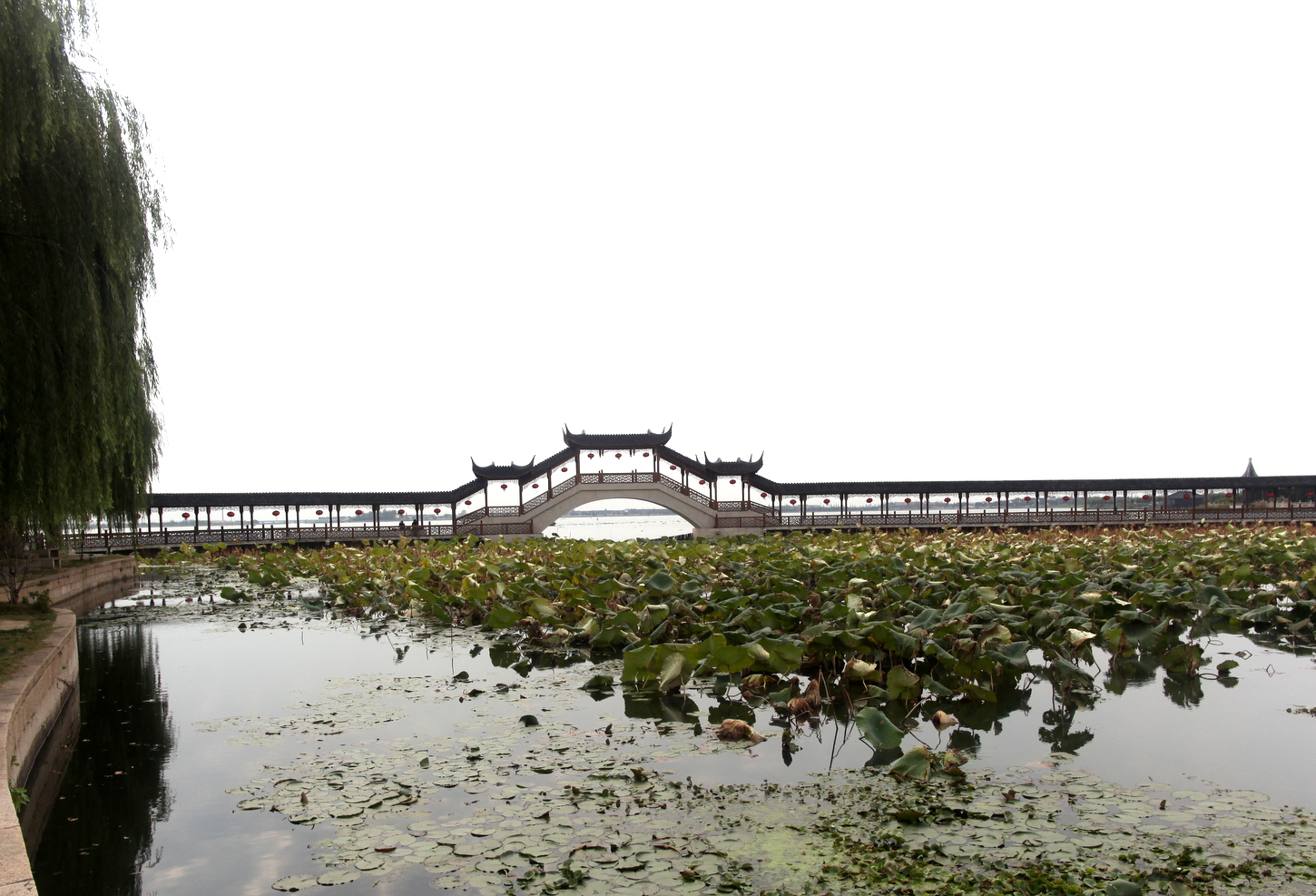 Jinxi bridge front view